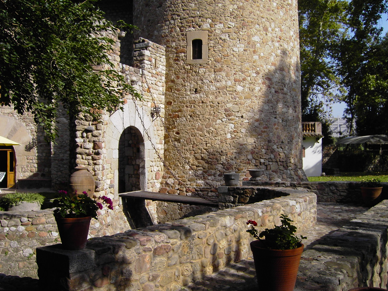 Main entrance of Torre de Cellers